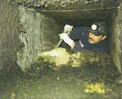 Often kitchen exhaust cleaners must enter a kitchen exhaust duct and scrape out heavy grease deposits, before applying chemicals and rinsing the kitchen exhaust system.